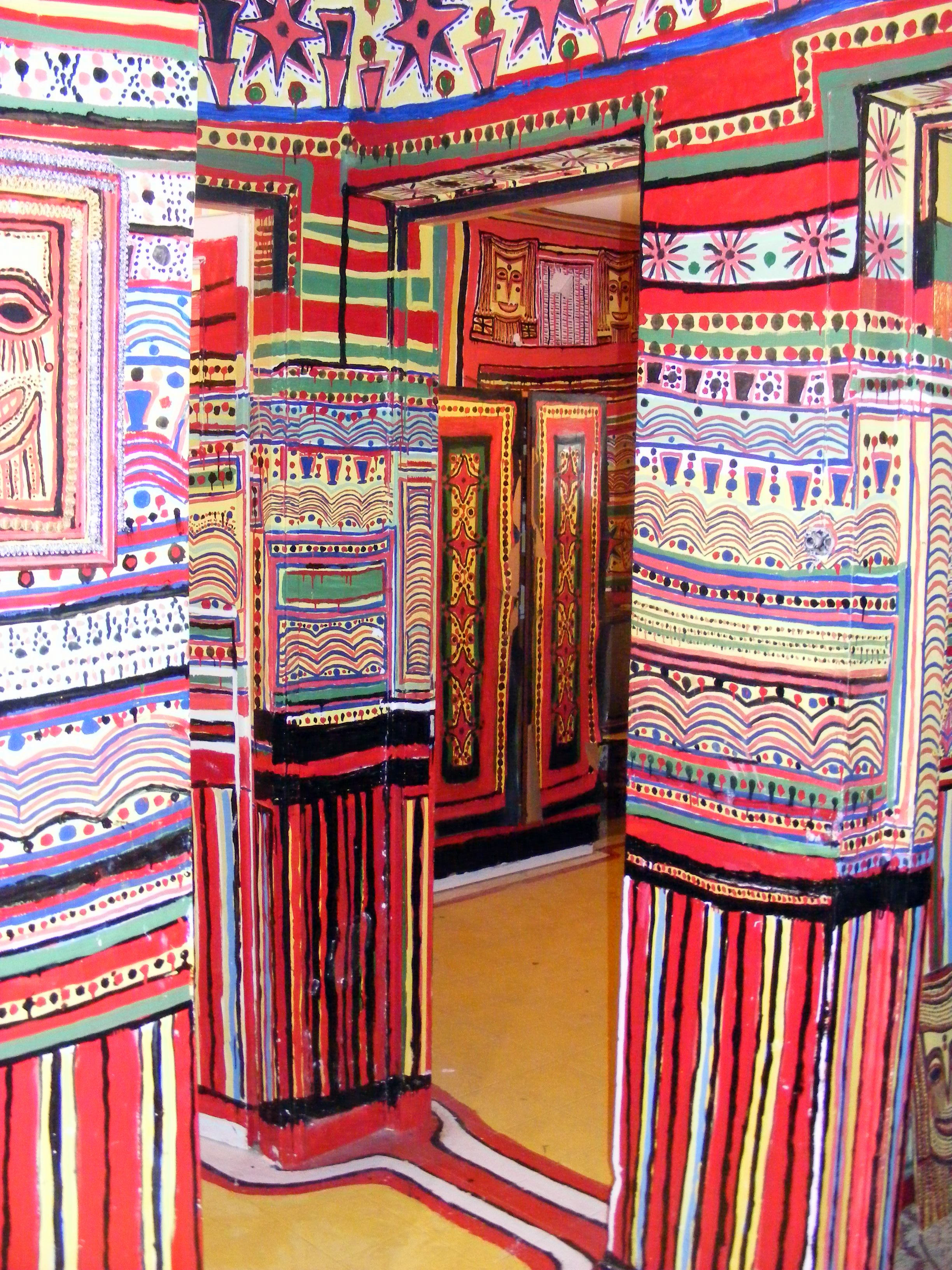 Afia Zecharia House, Architecture of Israel